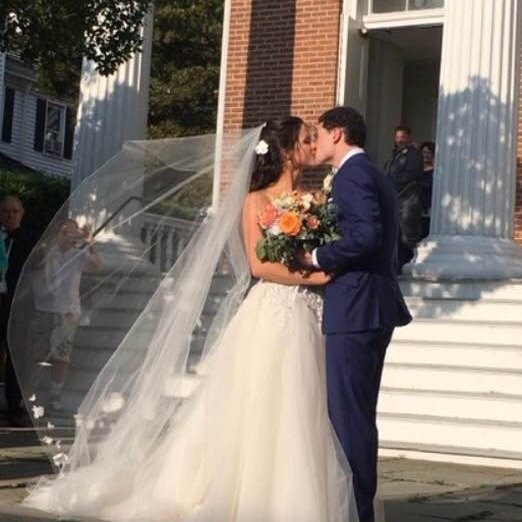 Sample of wedding veil